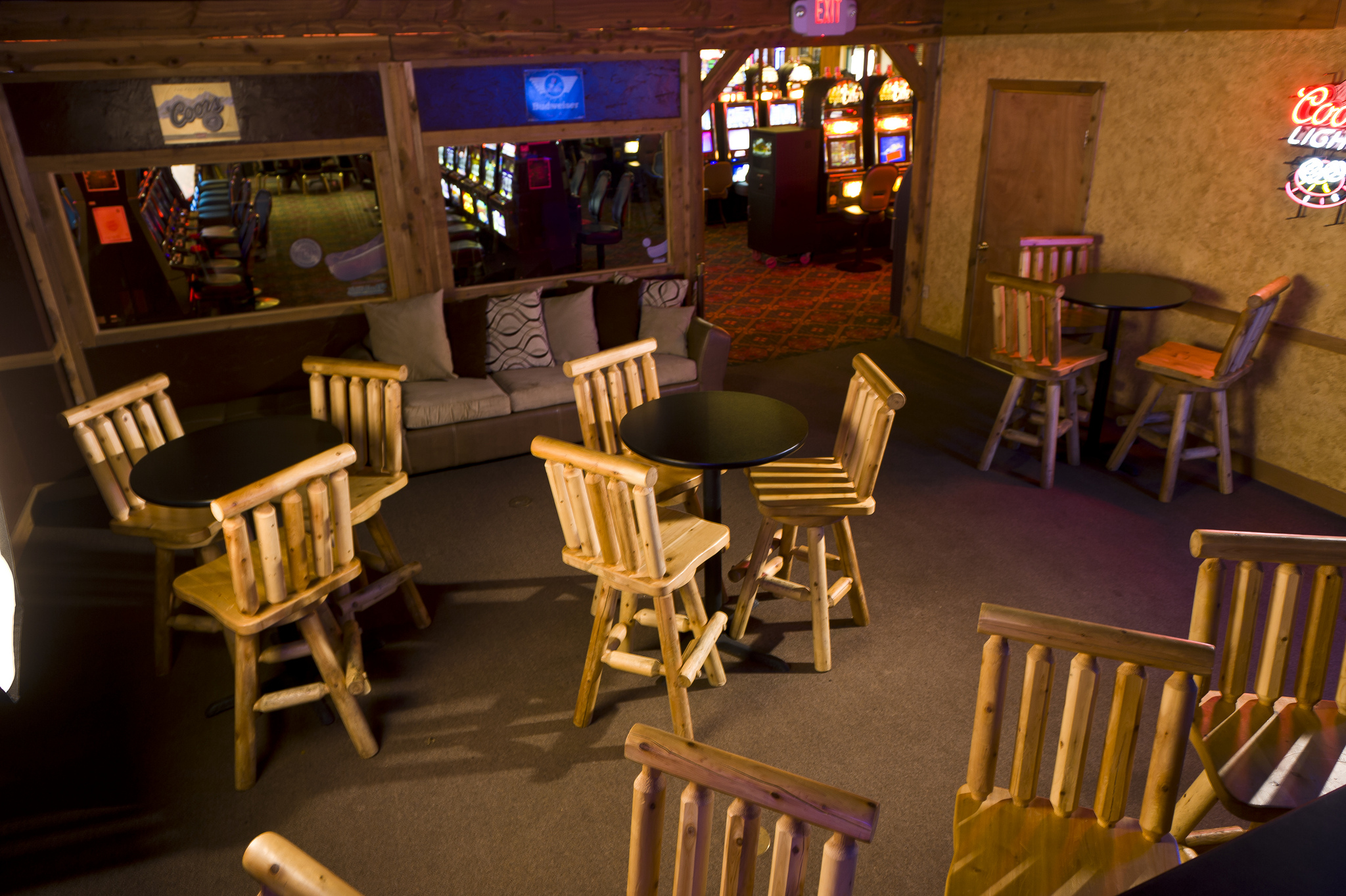 Interior of Treasure Valley Casino in Davis, Oklahoma.